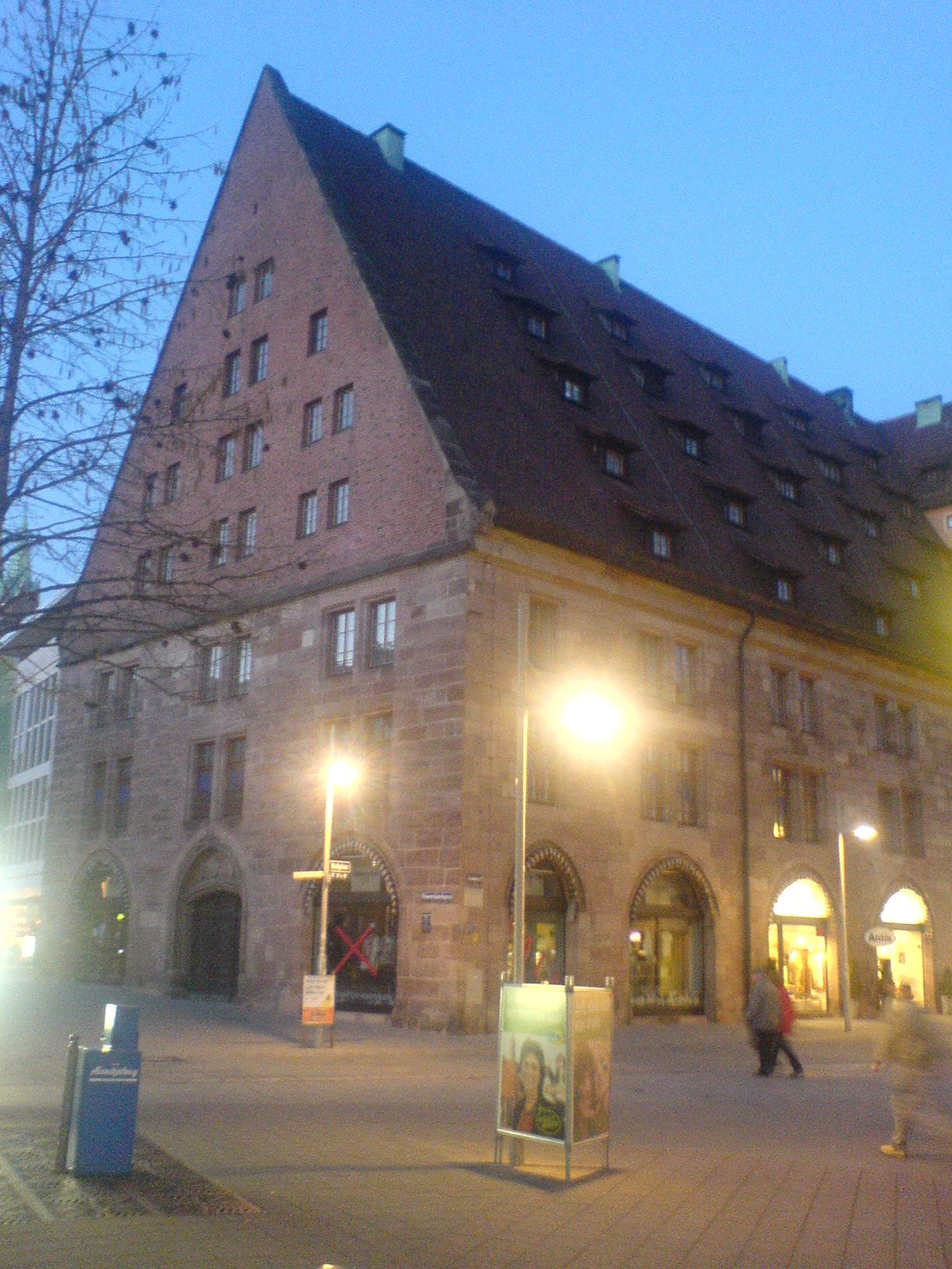 Mauthalle, Nuremberg, Germany